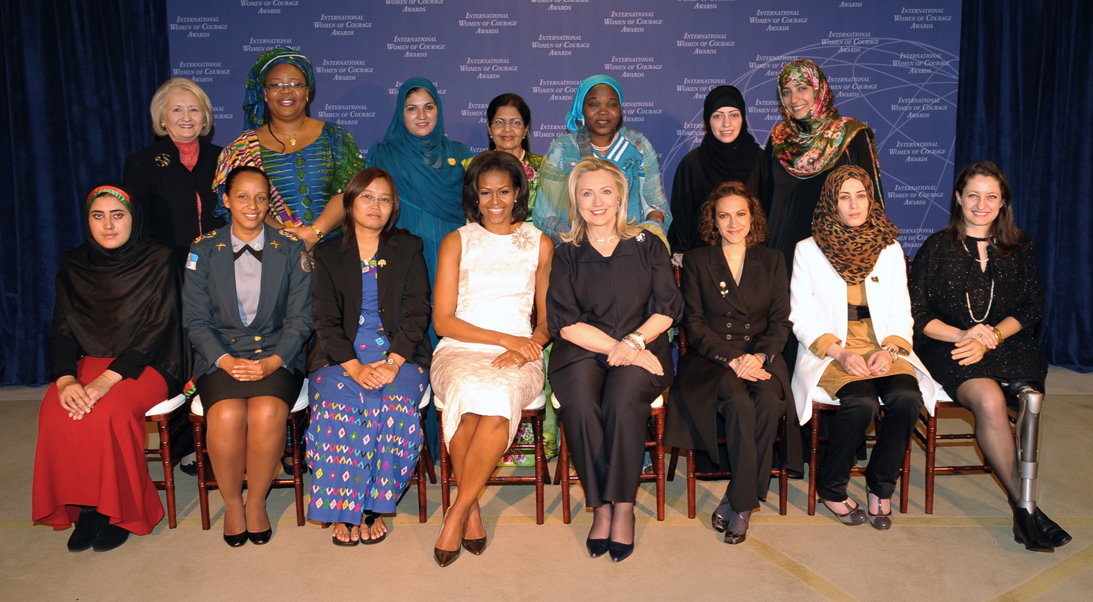 U.S. Secretary of State Hillary Rodham Clinton, front row center right; and First Lady Michelle Obama, front row center left; pose for a photo with the 2012 International Women of Courage (IWOC) Award Winners at the U.S. Department of State in Washington, D.C., on March 8, 2012. [State Department photo/ Public Domain] Back row (l-r): Melanne Verveer, Leymah Gbowee, Shad Begum, Aneesa Ahmed, Hawa Abdallah Mohammed Salih, Samar Badawi, Tawakkol Karman. Front row: Maryam Durani, Pricilla de Oliveira Azevedo, Zin Mar Aung, Michelle Obama, Hillary Rodham Clinton, Jineth Bedoya Lima, Hana El Hebshi, Safak Pavey.